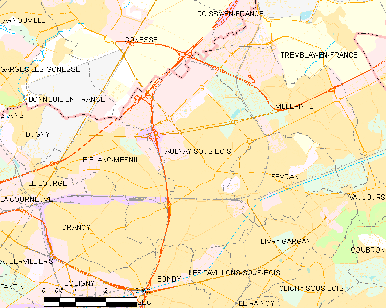 Map of French municipality Aulnay-sous-Bois